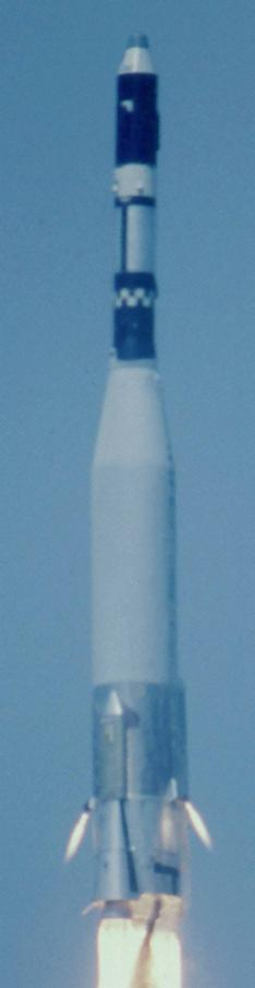 Launch of Atlas SLV-3 Agena D rocket with satellite KH-7 28.